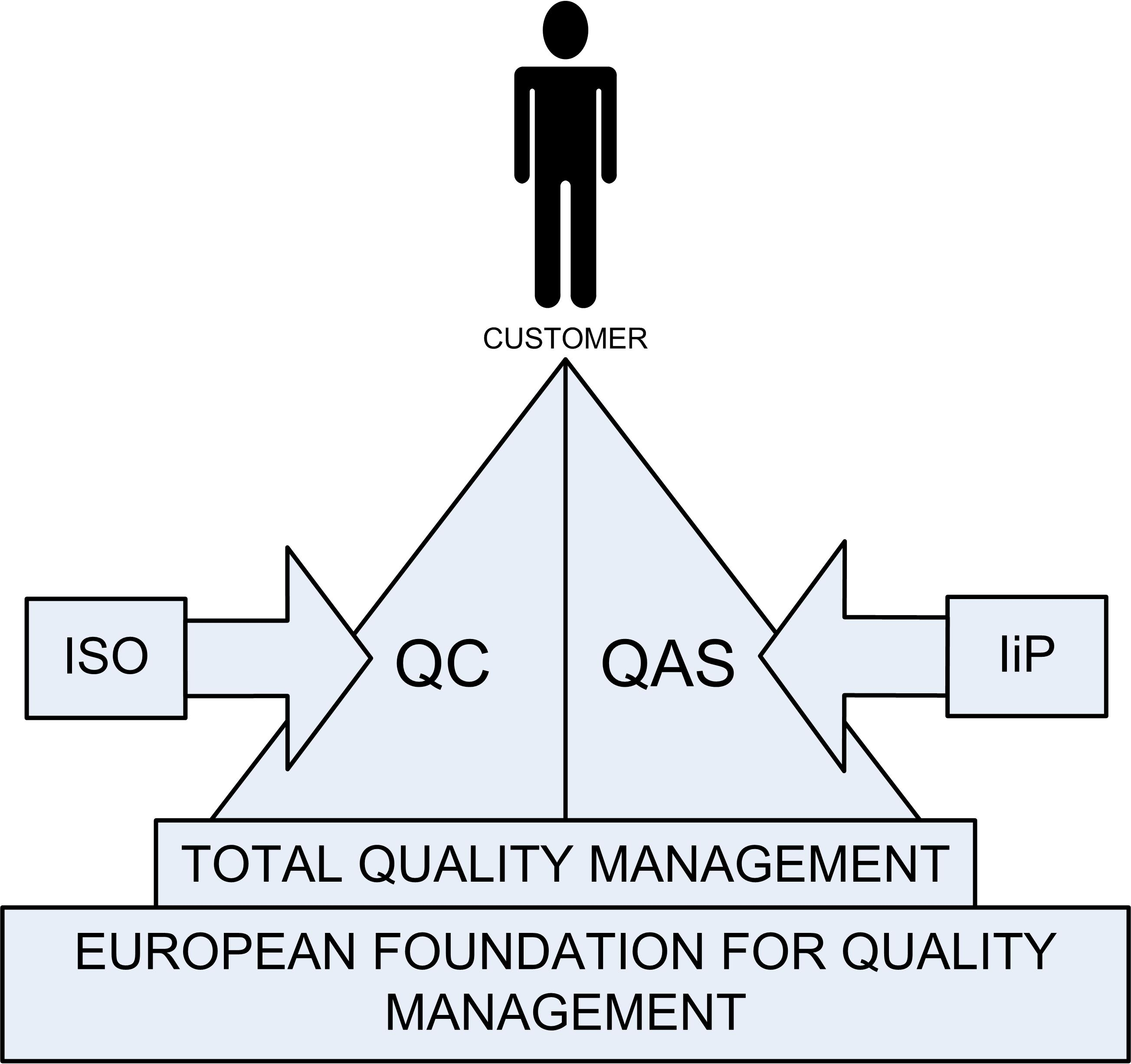 Quality Model (inverted)